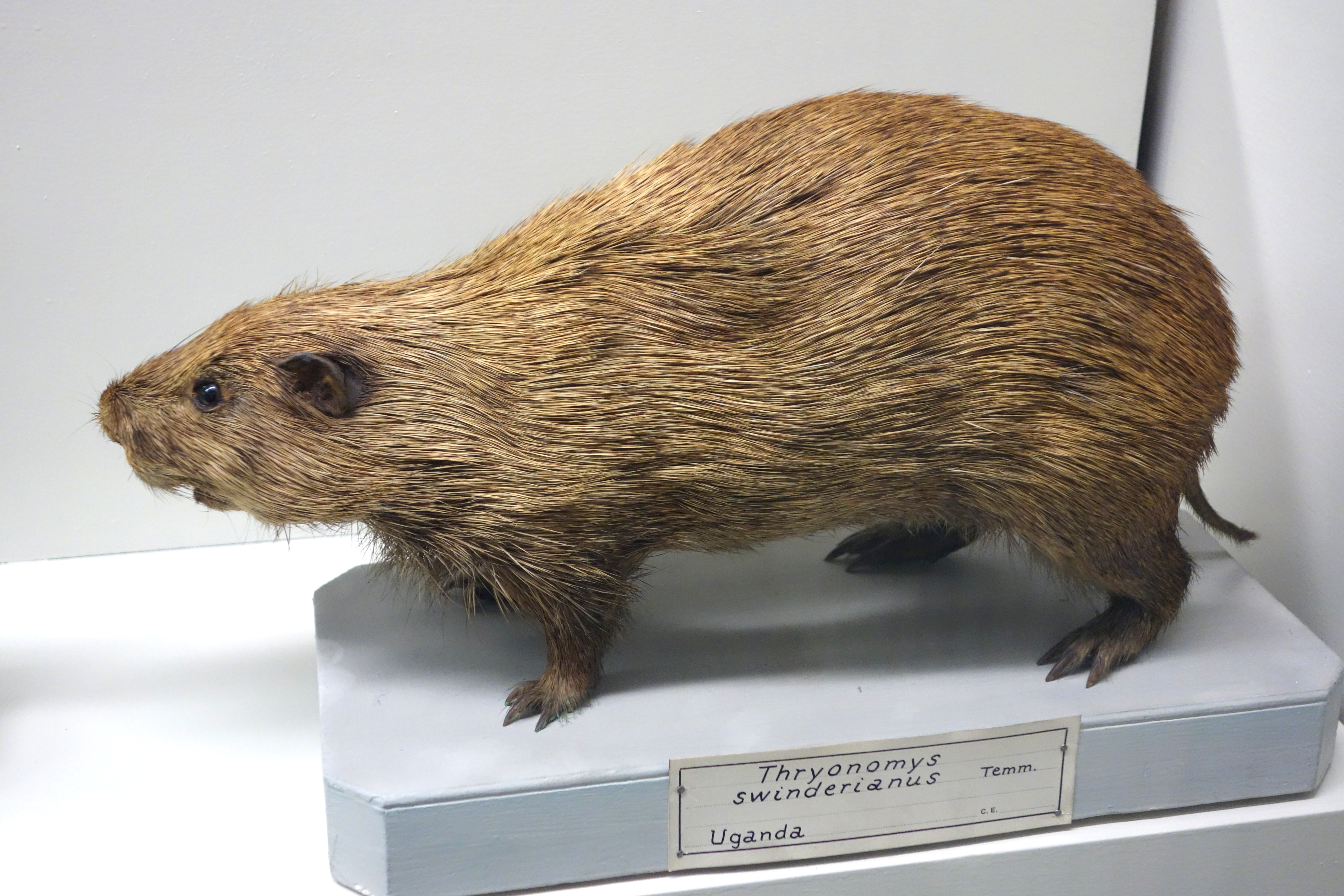 Exhibit in the Museo Civico di Storia Naturale di Genova, Via Brigata Liguria, 9, 16121, Genoa, Italy.